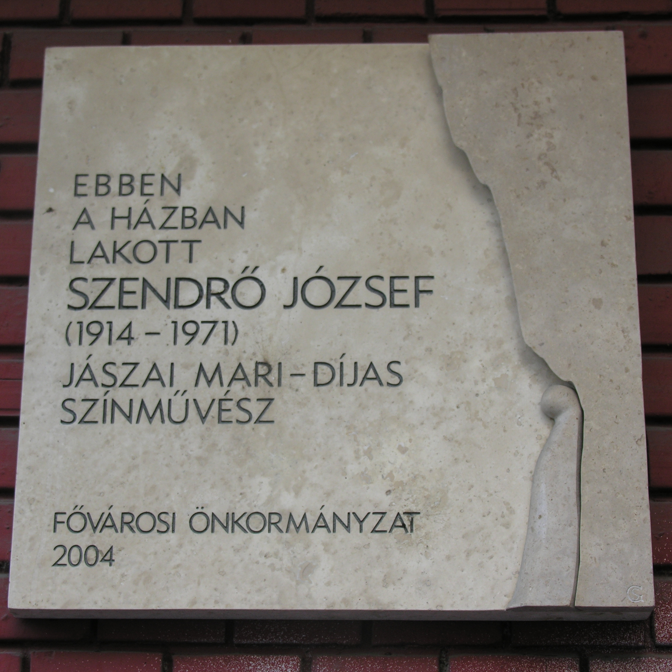 Commemorative plaque of József Szendrő in Budapest District VII, Bajza Street No 1-9